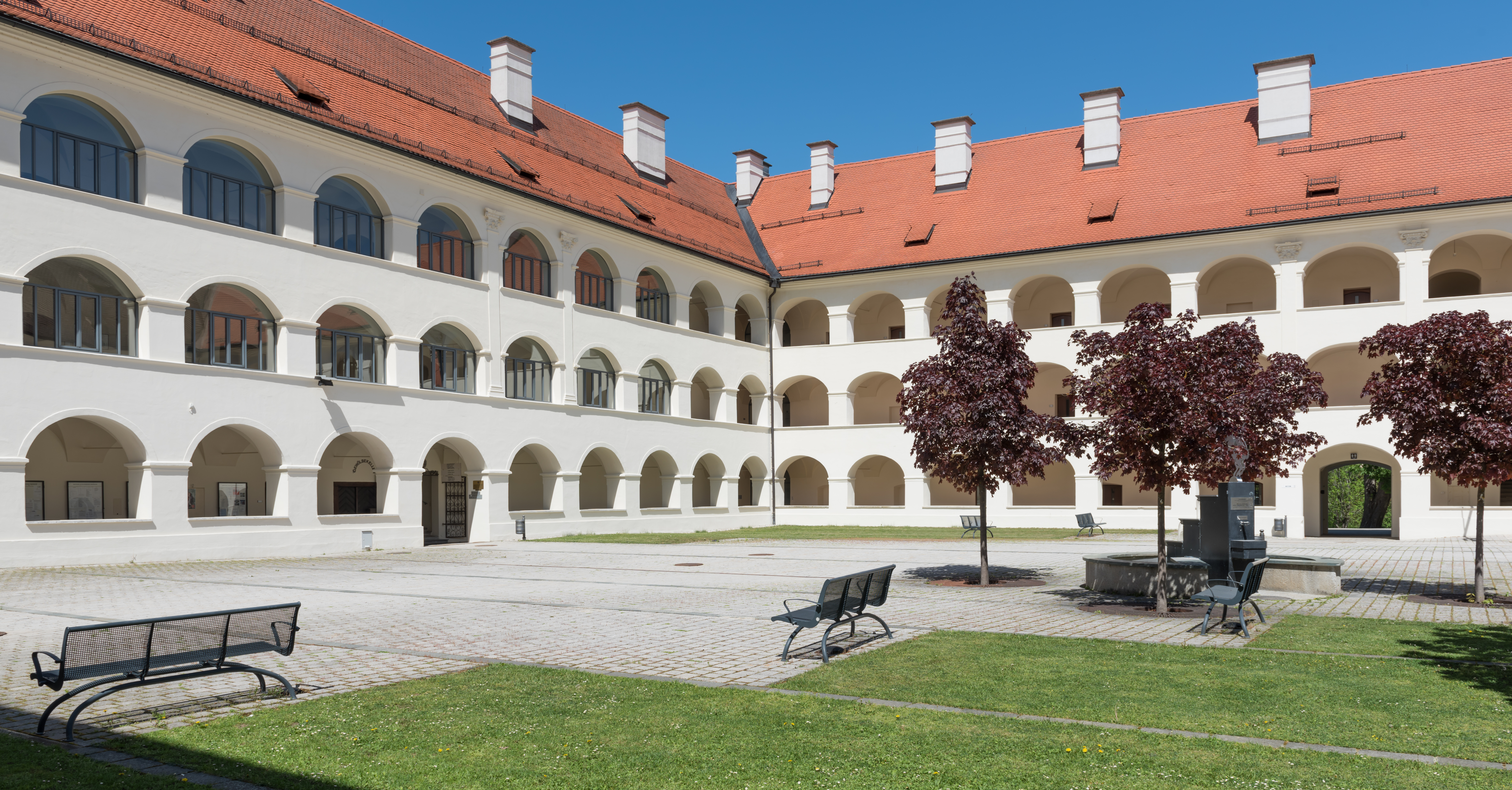 Baroque arcade yard of the former monastery (nowadays municipal office), market town Eberndorf, district Völkermarkt, Carinthia, Austria, European Union